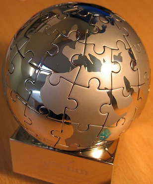 A puzzle globe